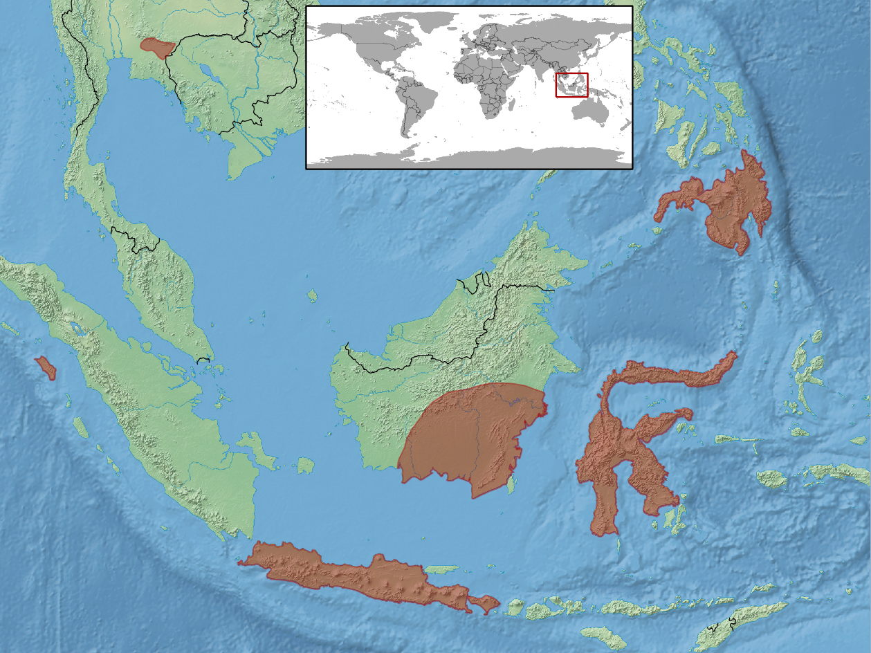 geographic distribution of Bronchocela jubata (Native: Indonesia (Bali, Jawa, Kalimantan, Sulawesi); Philippines; Thailand)